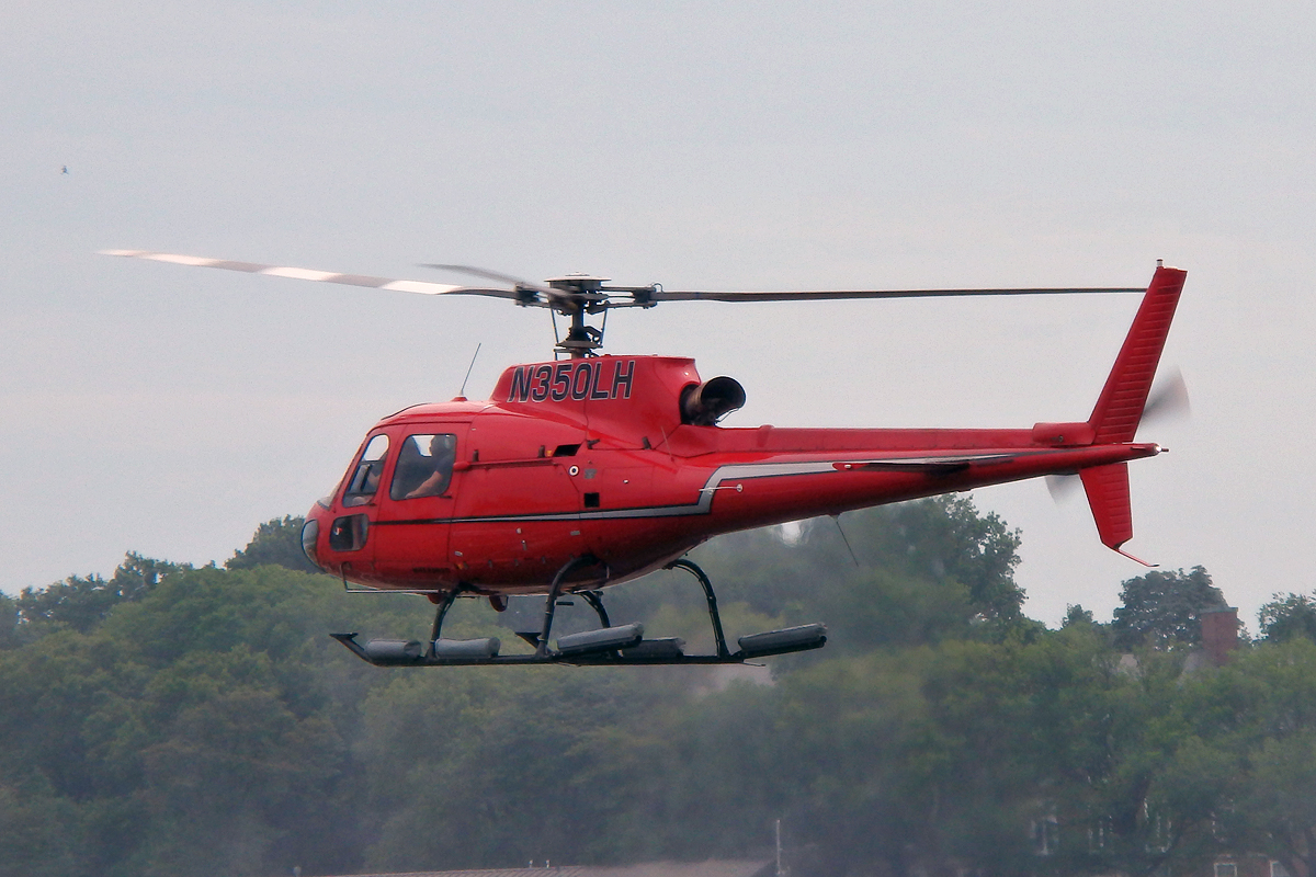 Private, N350LH, Eurocopter AS350B2